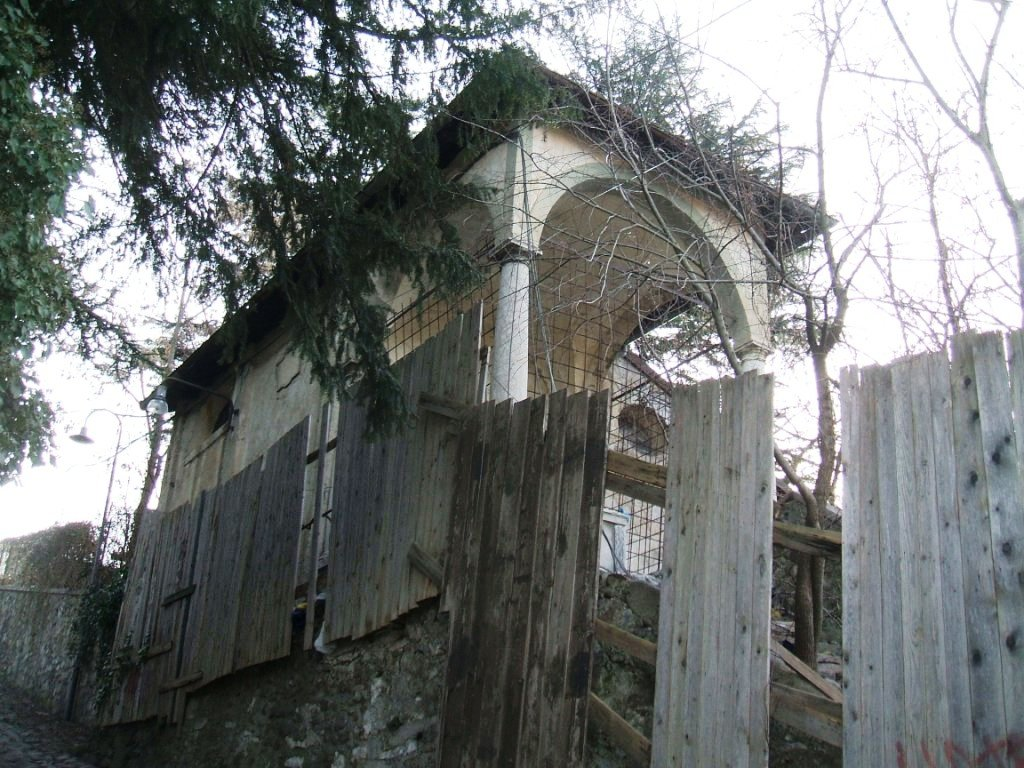 A small church in Trento by the way to Mesiano